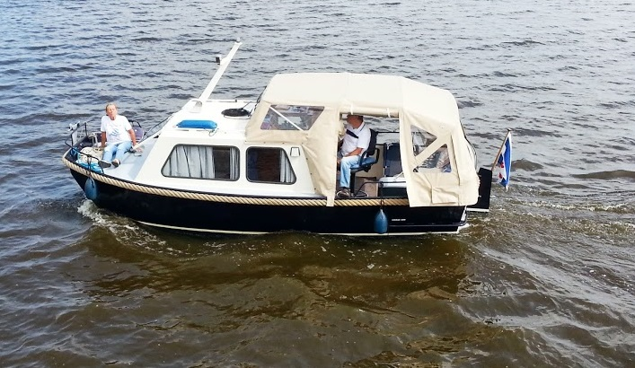 Doerak motor yacht